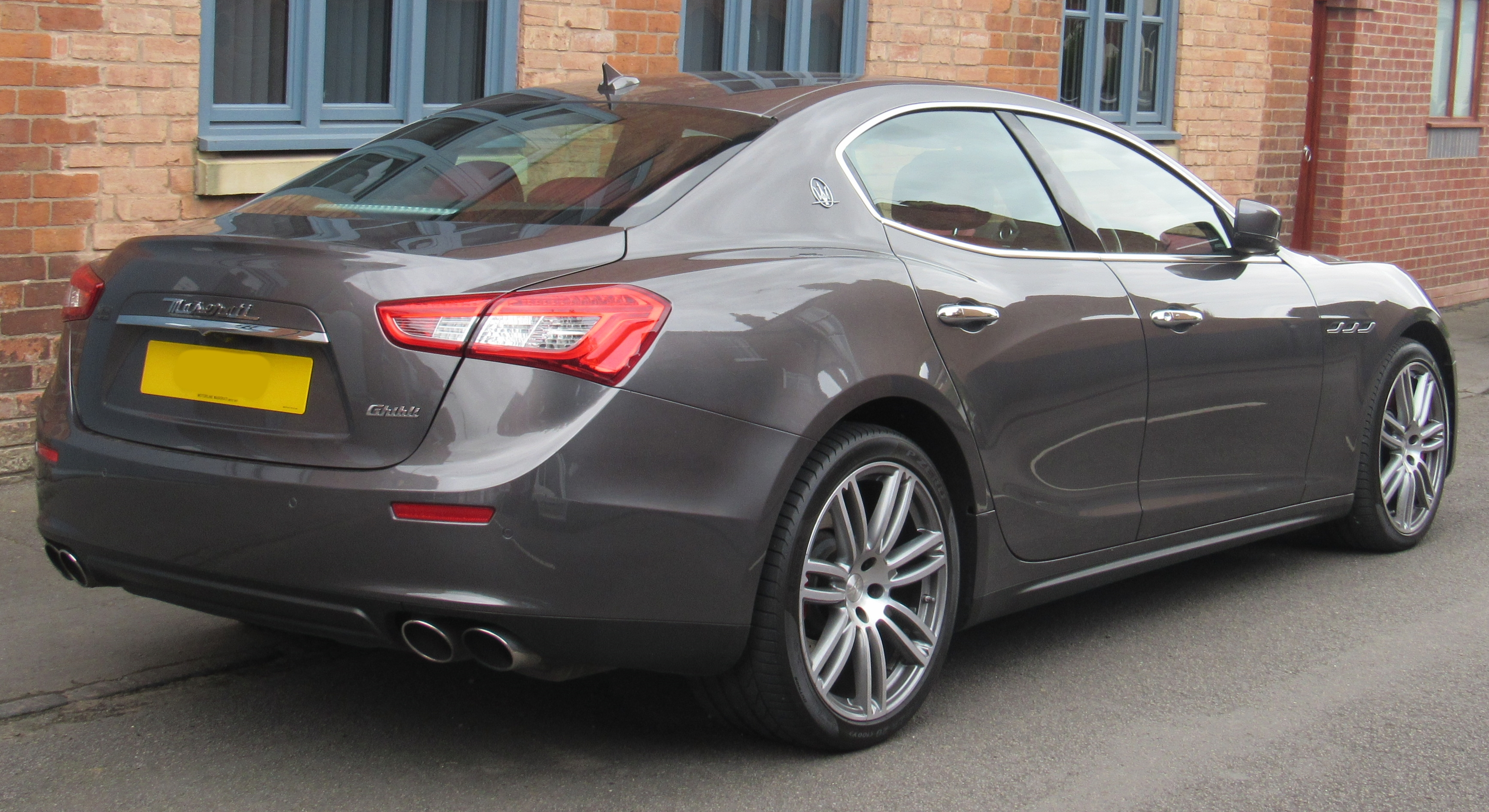 2015 Maserati Ghibli V6 Automatic 3.0 Rear Taken in Leamington Spa